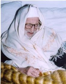 Shaykh Abdul Karim Mudarris Al Bayyarah